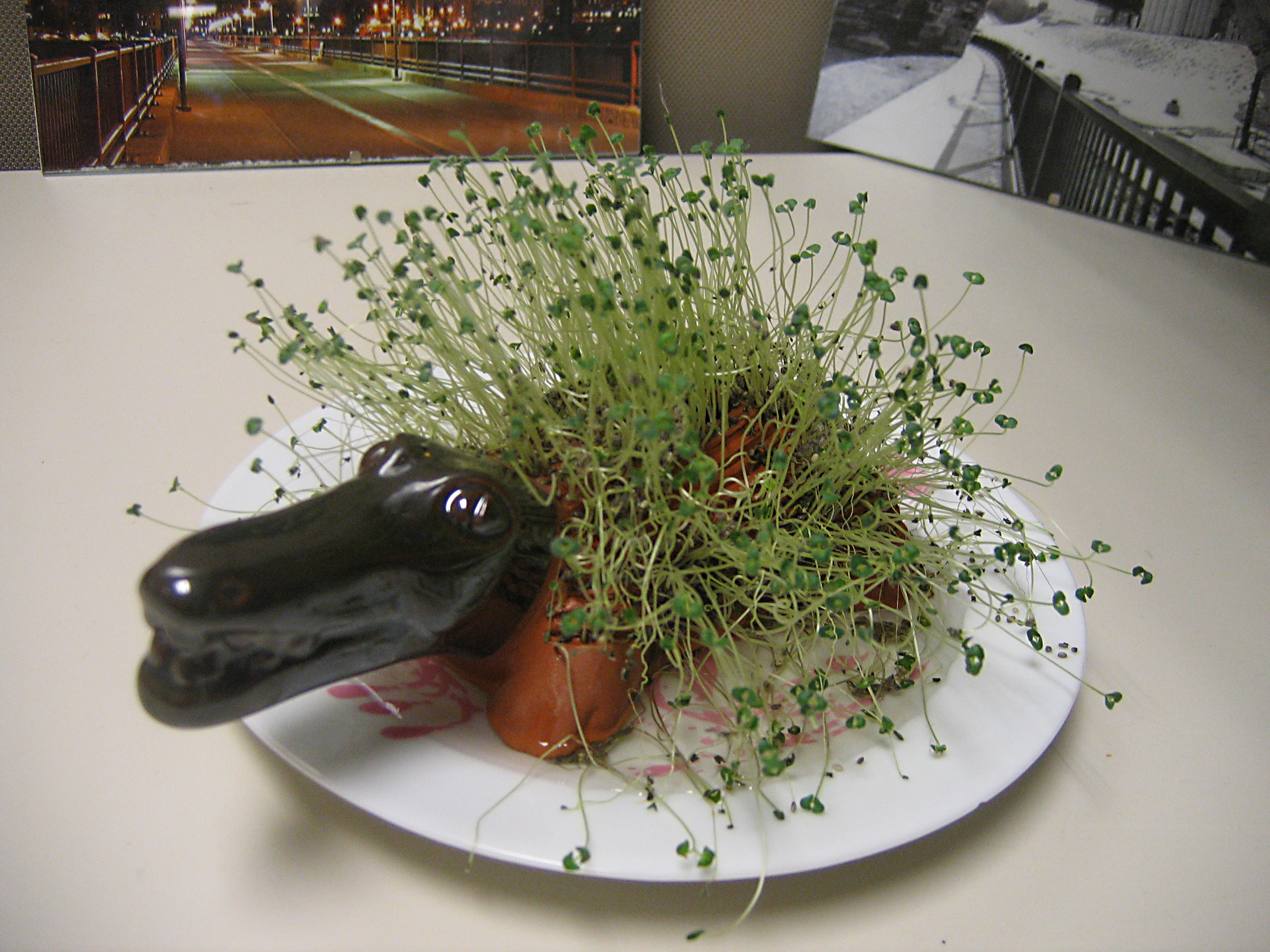 An alligator Chia Pet named Wally Gator.